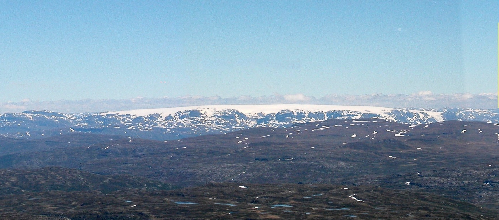 The glacier Hardangerjøkulen seen from Hårteigen, Norway.